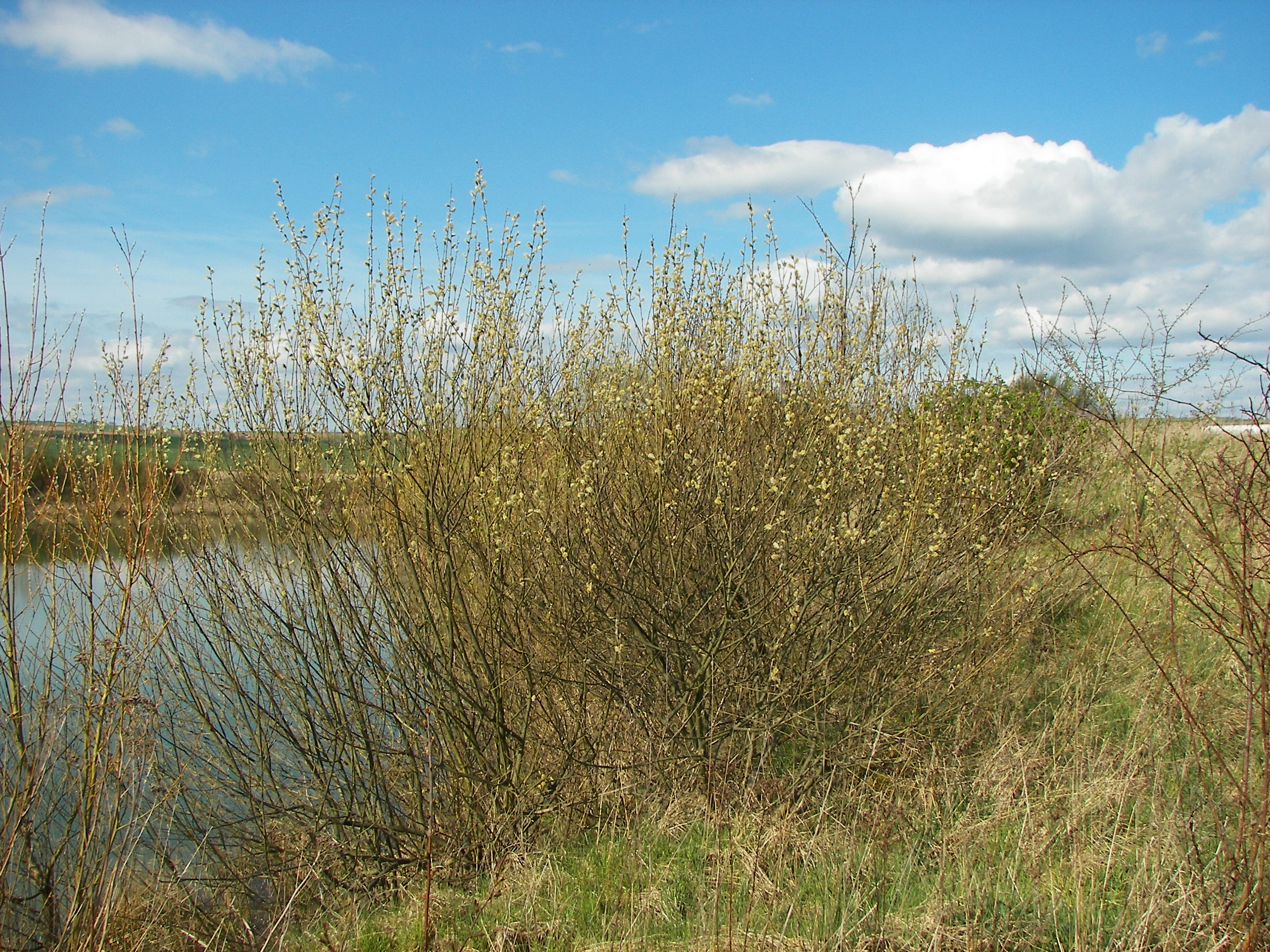 Goat Willow (Salix caprea), with male catkins, Location: Lahntal-Goßfelden, Hesse, Germany